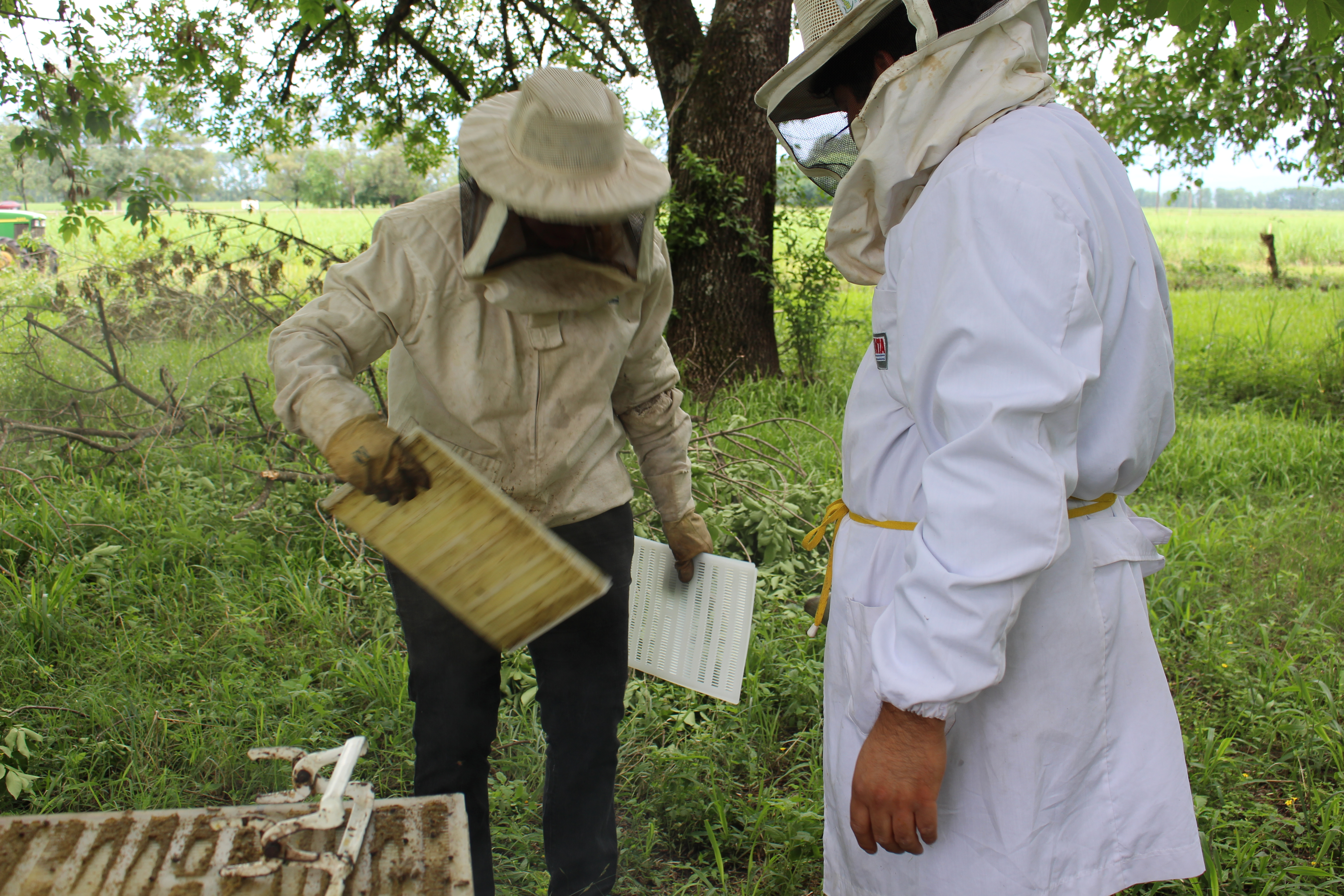 BeeKeeping propolis pans